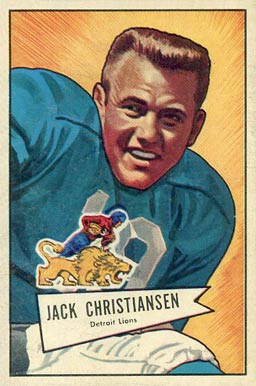 National Football League player Jack Christiansen on a 1952 Bowman Gum football trading card with the Detroit Lions